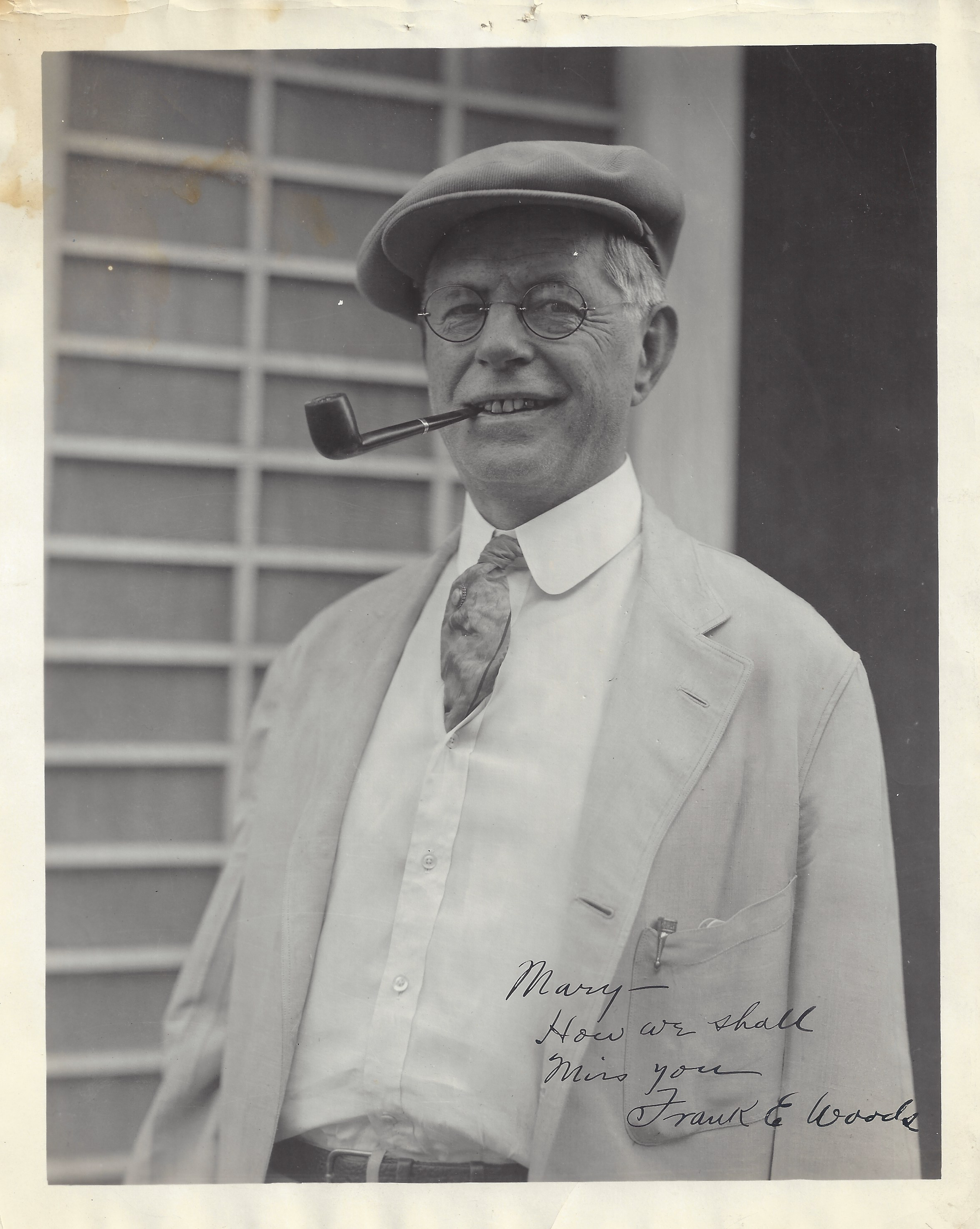 Photo portrait of Frank E Woods from the estate of Mary H O'Connor. Inscription says: Mary - How we shall Miss you Frank E Woods